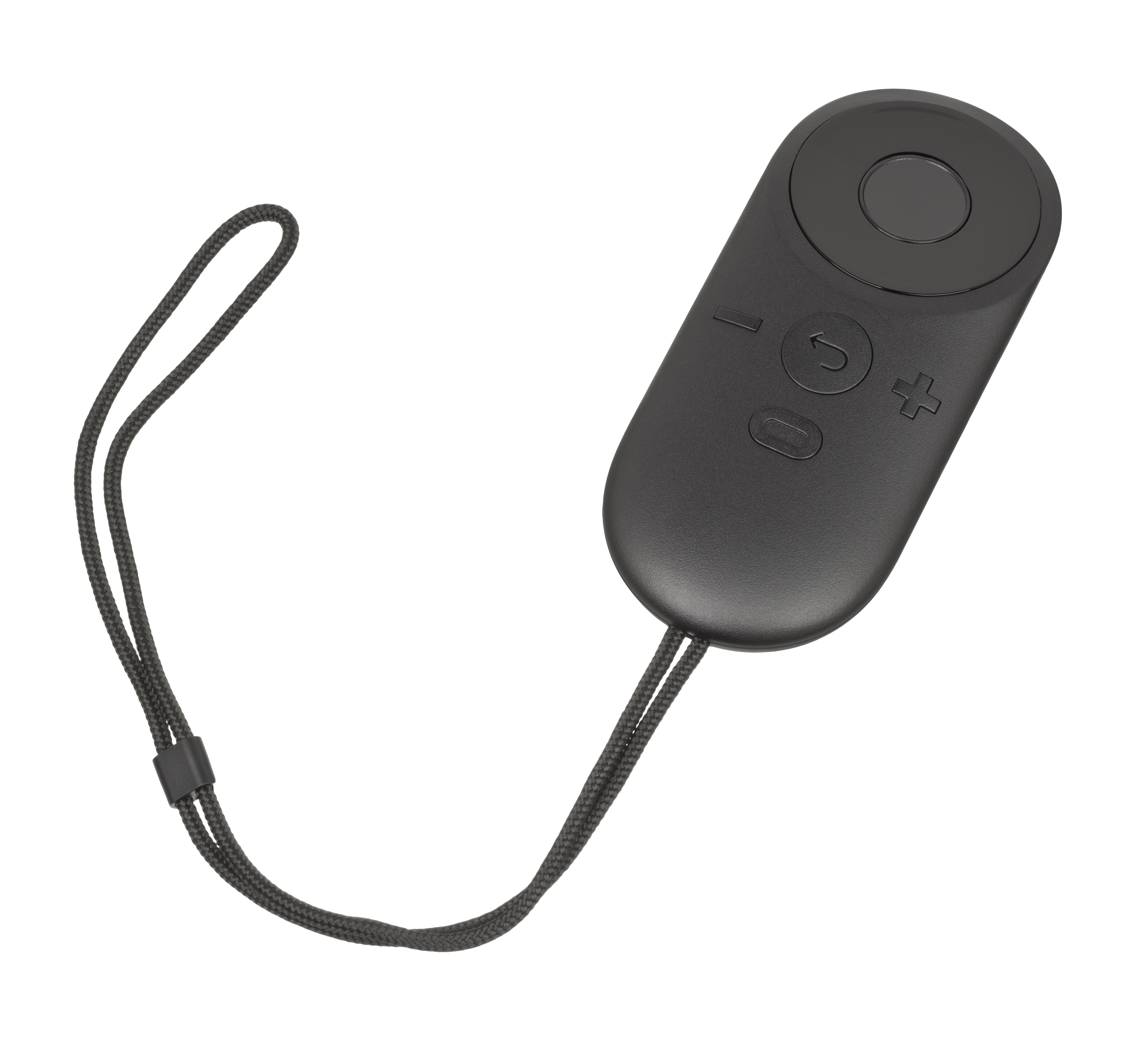 The remote for the Oculus Rift CV1 (Consumer Version 1), a virtual reality headset made by Oculus VR and released in 2016. This remote was only included in the original bundle and was phased out with the introduction of the Touch controller bundle.